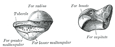 The left navicular bone.